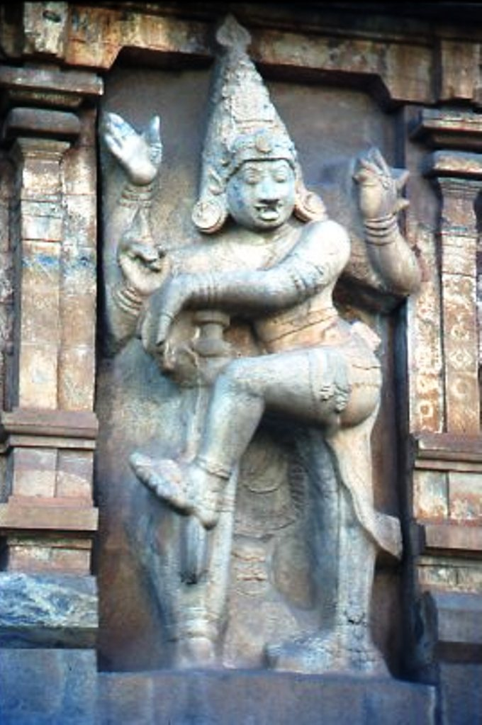 Kamchipuram, India